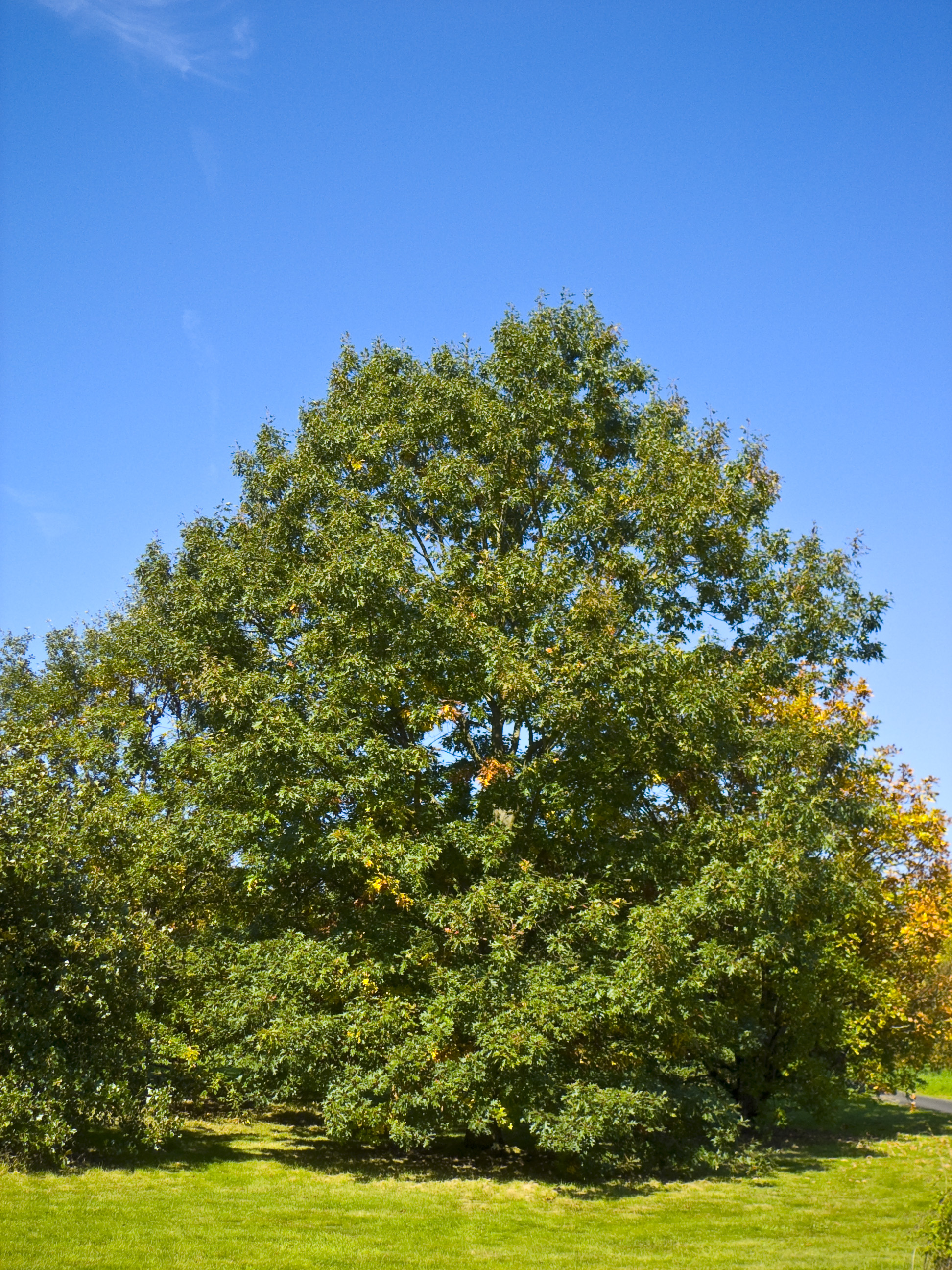 Dyer's Oak (Quercus velutina) in the New Botanical Garden Marburg, Hesse, Germany